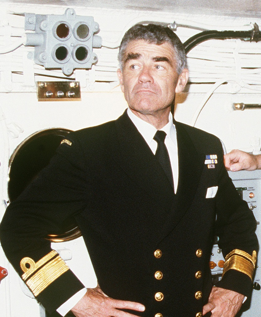 Rear Admiral (RDML) D.J. Martin, Royal Australian Navy, listens to Gunner's Mate First Class V.W. Allen (USN) as he explains operations inside the No. 1 gun turret aboard the battleship USS MISSOURI (BB 63). The ship is on a port visit during a cruise around the world. Location: SYDNEY, NEW SOUTH WALES AUSTRALIA (AUS)